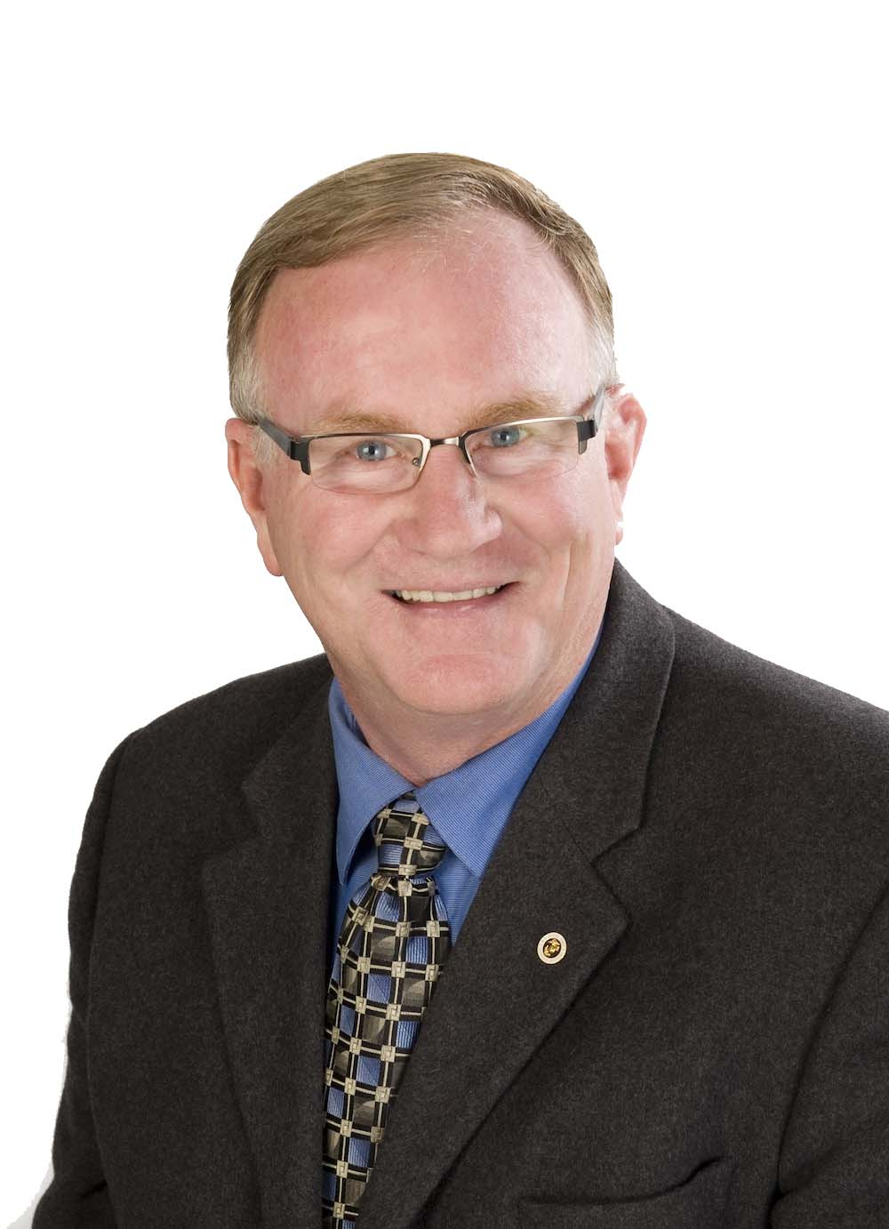 MLA Joe Anglin